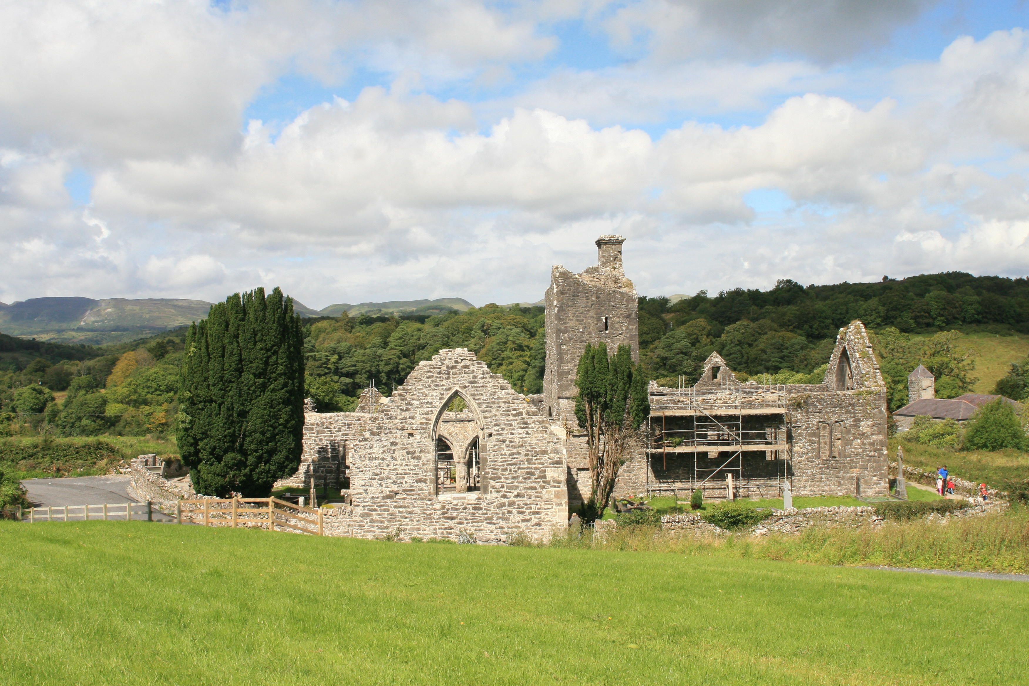 Dromahair, County Leitrim, Ireland South view of Creevelea Friary, a Franciscan monastery founded in 1508. In the background Keelogyboy (at the very left) and its associated mountain range are to be seen.